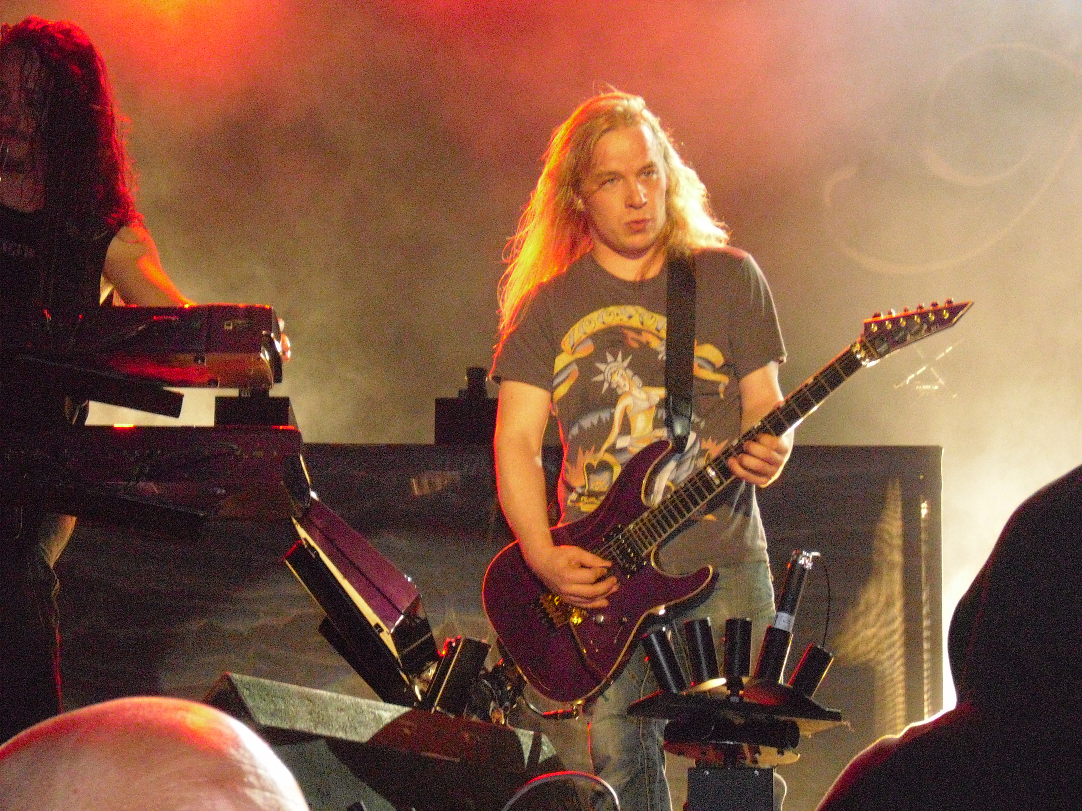 Emppu Vuorinen performing live with Nightwish at Norway Rock Festival in 2009